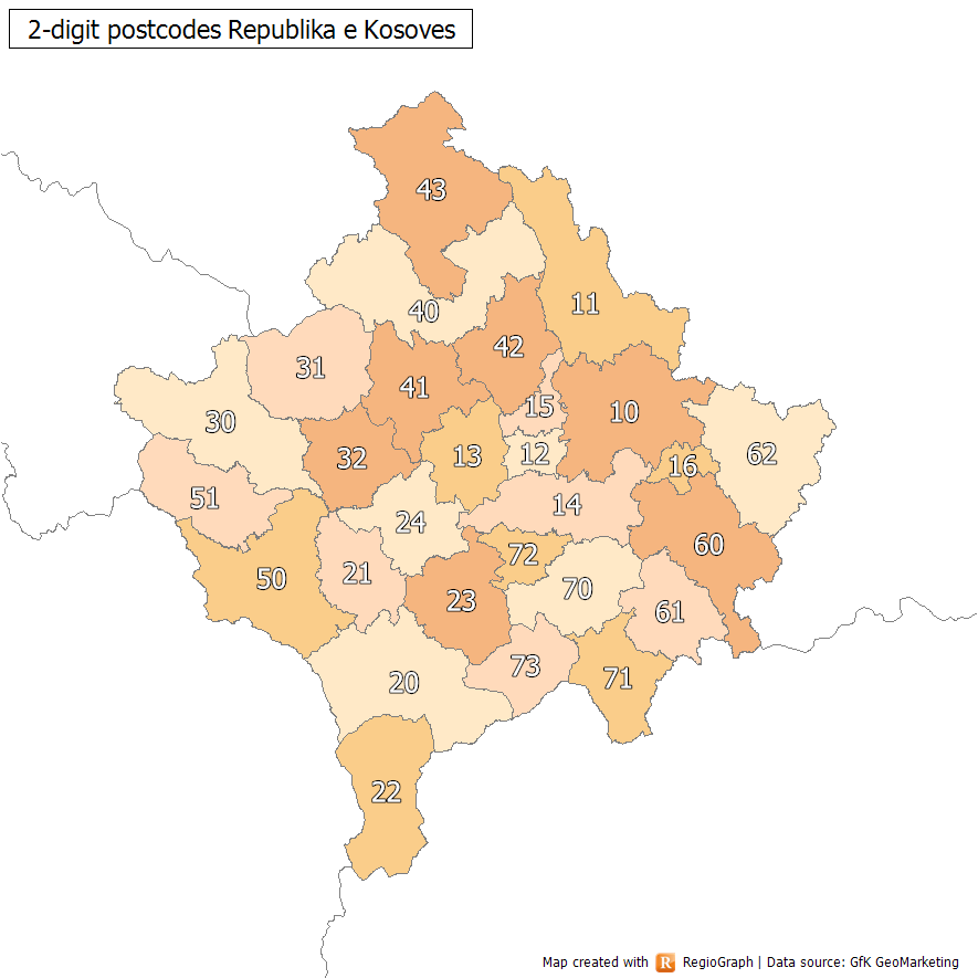 2-digit postcodes Kosovo: postcode areas, described through the first two digits of postcode system in Kosovo.